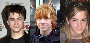 Daniel Radcliffe at Empire Awards 2006